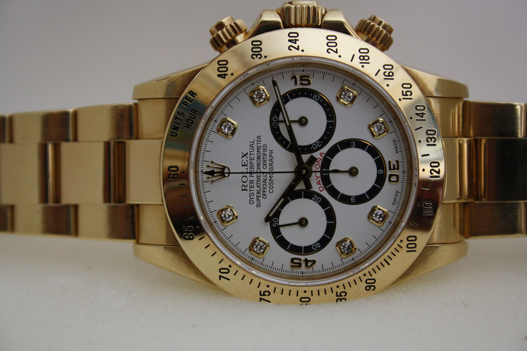 Daytona 16528 S serial